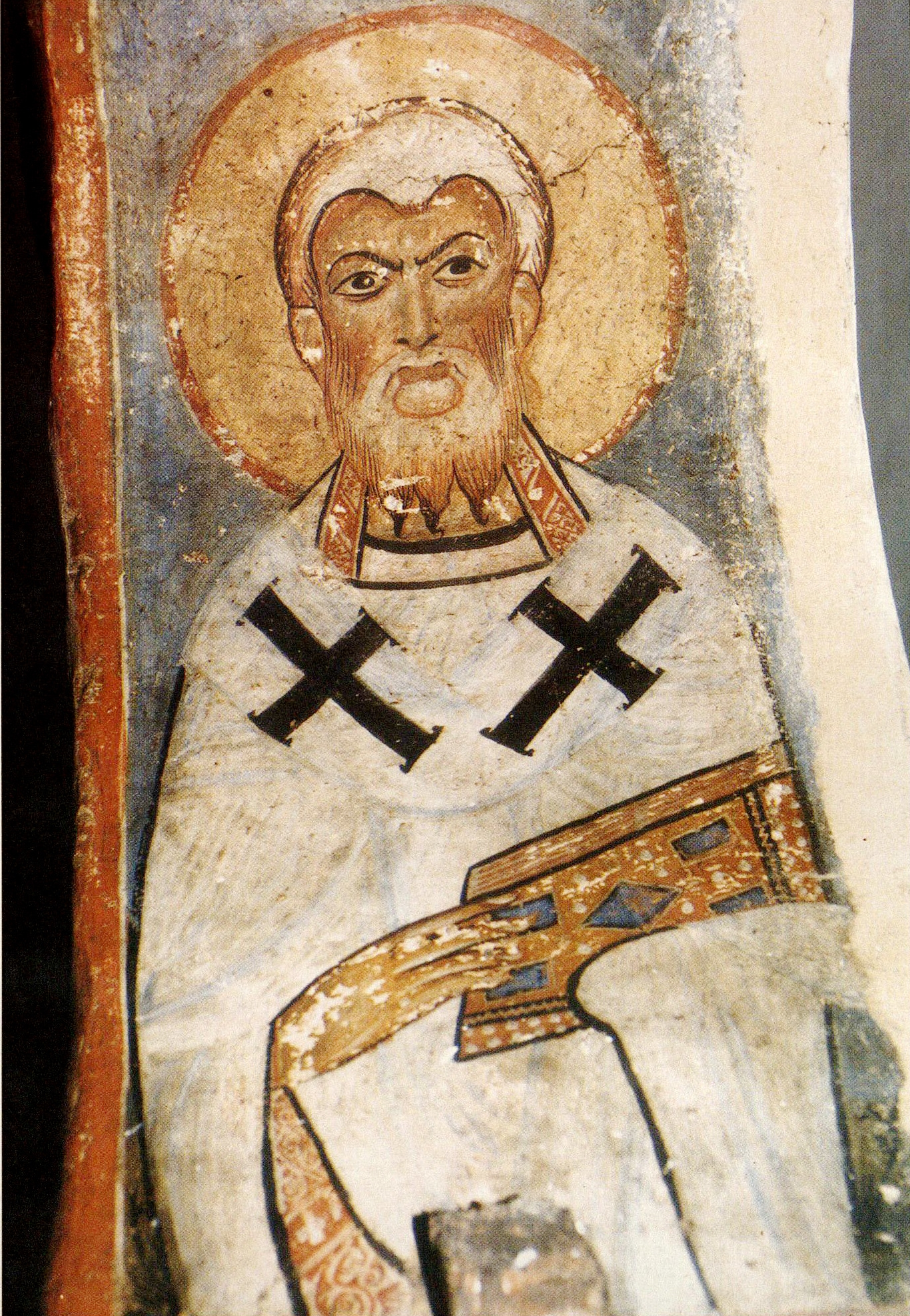 Fresco of Saint Athanasius. From the church of Panagia Episcope on the Greek island of Santorini.